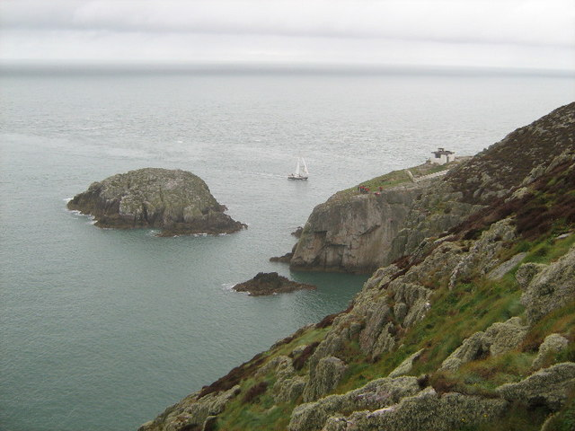 North Stack Taken from near the top of Wen Slab. The yacht, en route to Holyhead Harbour, is taking a narrow line in calm water between the rocks of the headland and the fierce offshore tide rip - the edge of which is clearly seen.